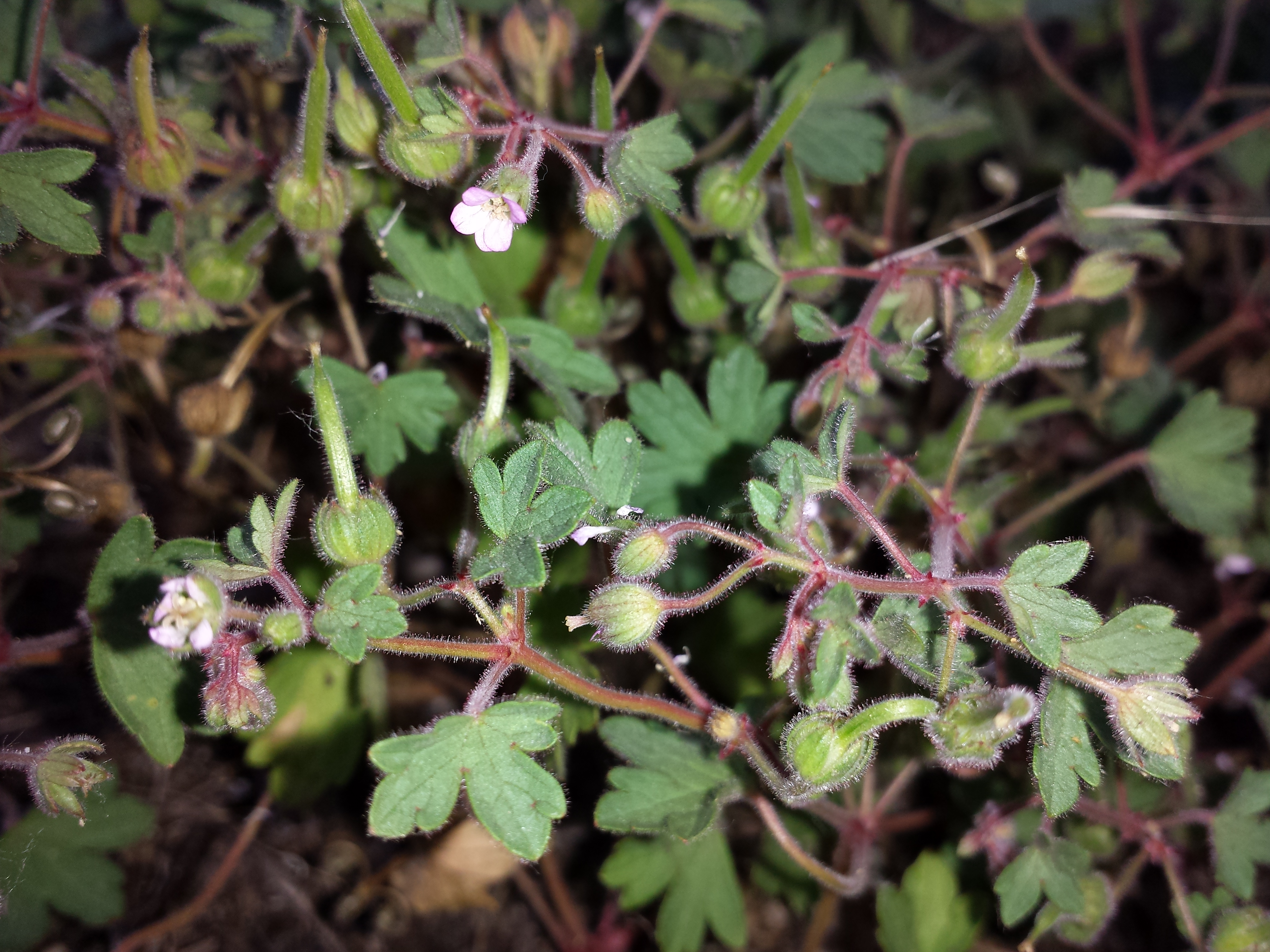 Habitus Taxonym: Geranium rotundifolium ss Fischer et al. EfÖLS 2008 ISBN 978-3-85474-187-9 Location: Floridsdorf/Leopoldau rail station, Vienna-Floridsdorf - ca. 160 m a.s.l. Habitat: ballast